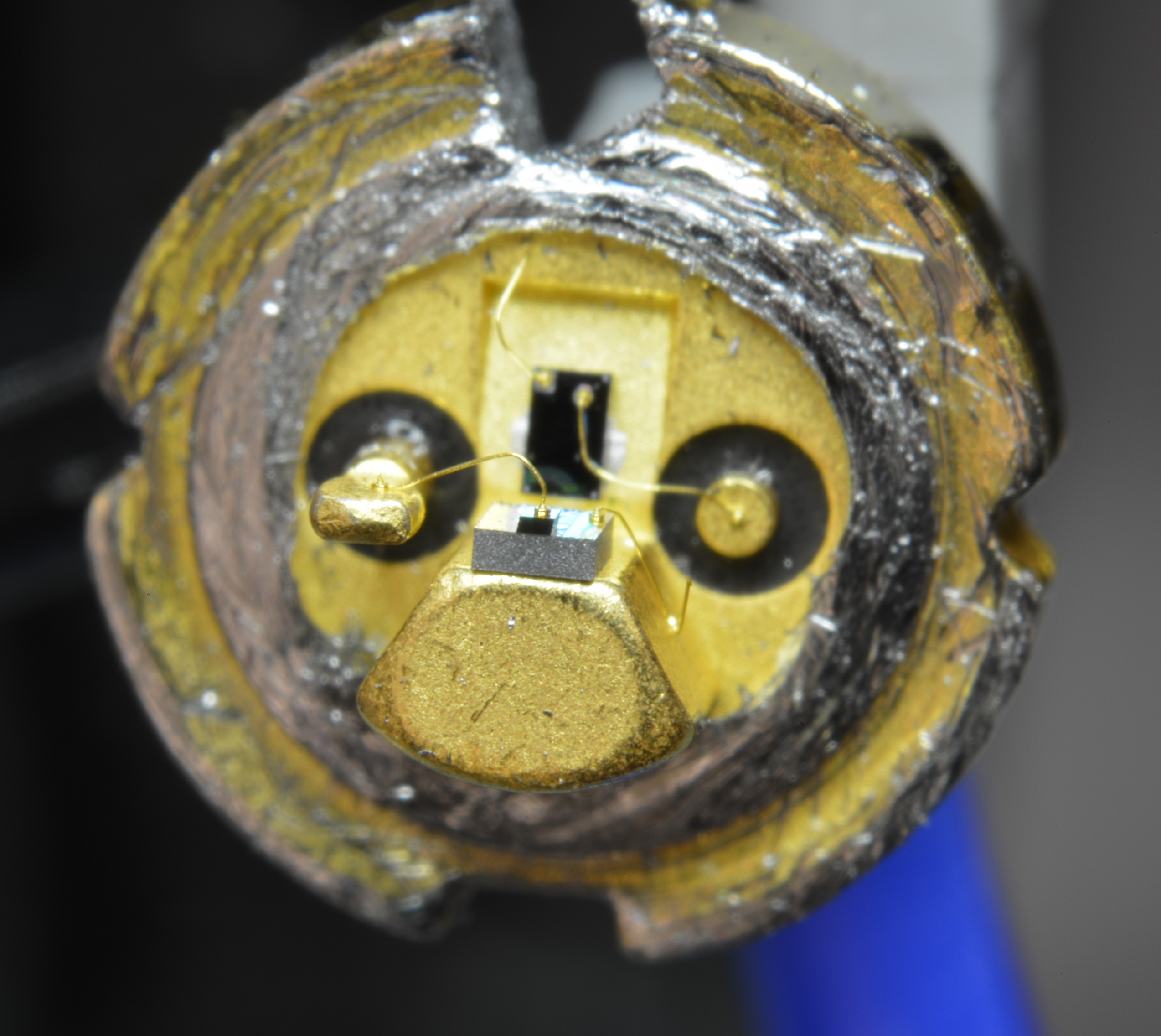 A TO-18 laser diode with the case removed (messily). The laser is off. The actual laser diode is at the front, the photodiode that measures output power is at the back.